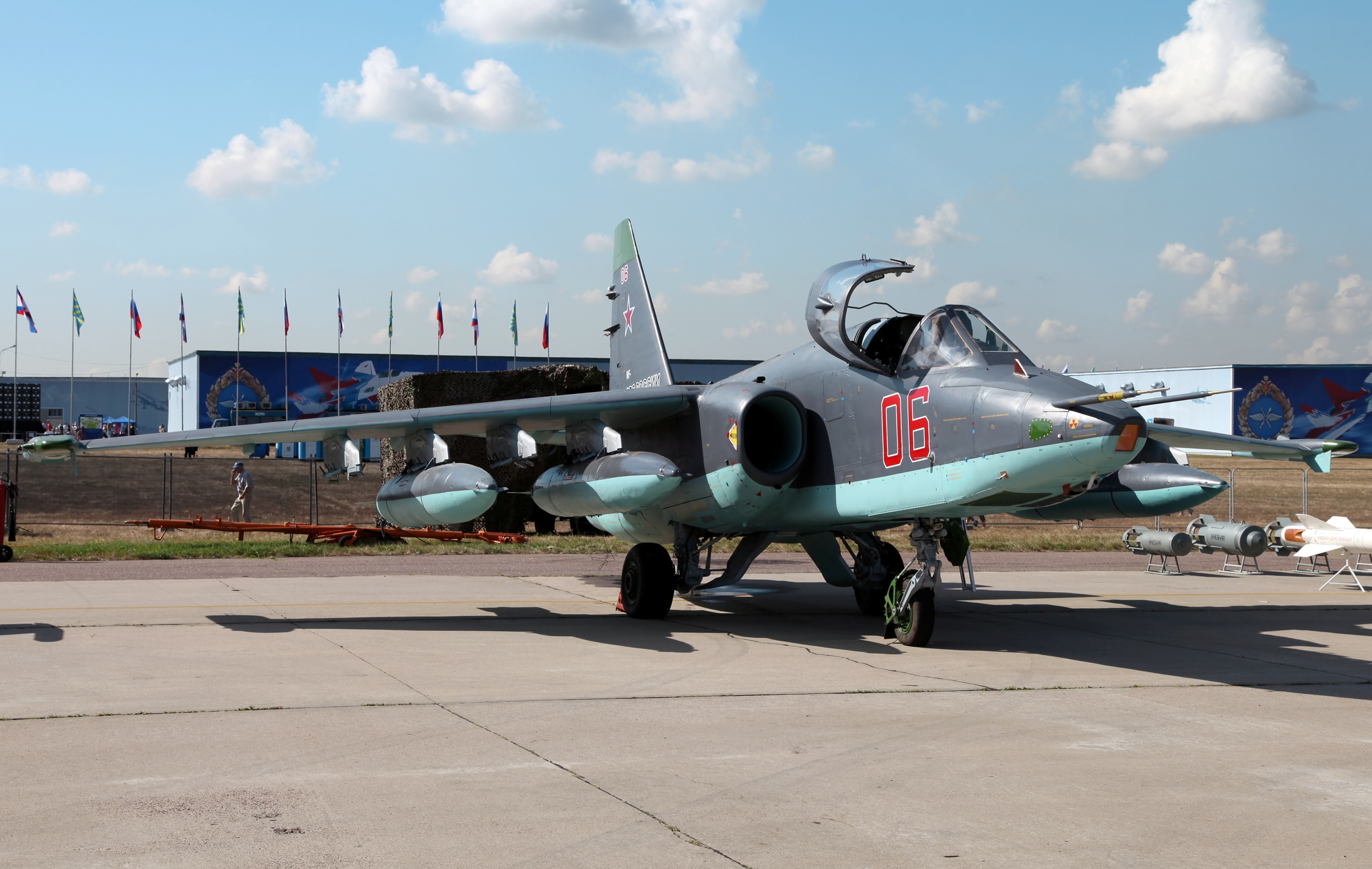 A Sukhoi Su-25SM at the Celebration of the 100th anniversary of Russian Air Force.